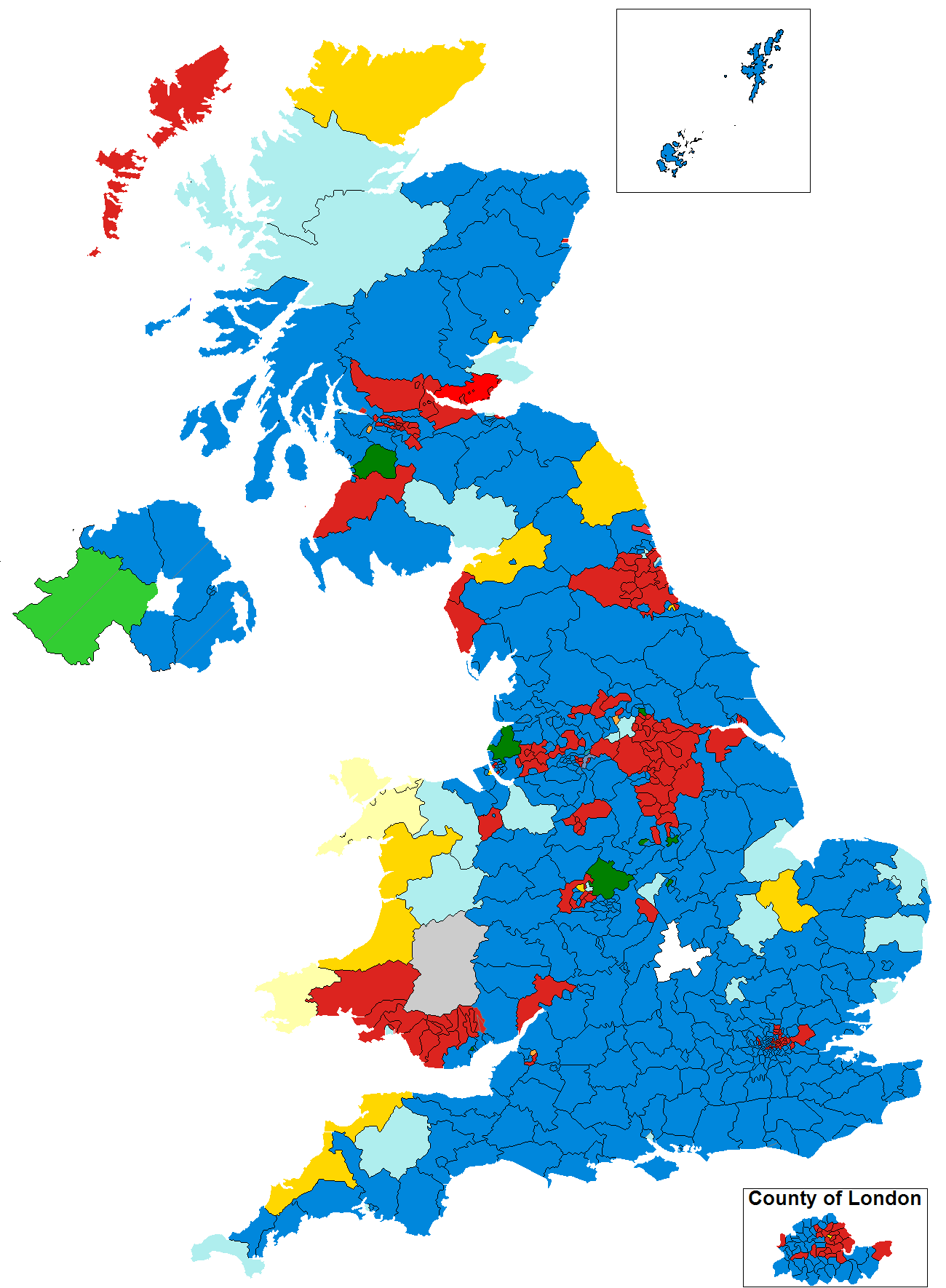 A map of the results of the United Kingdom general election, 1935.